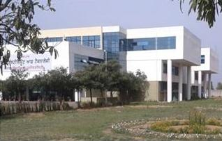 Kapurthala